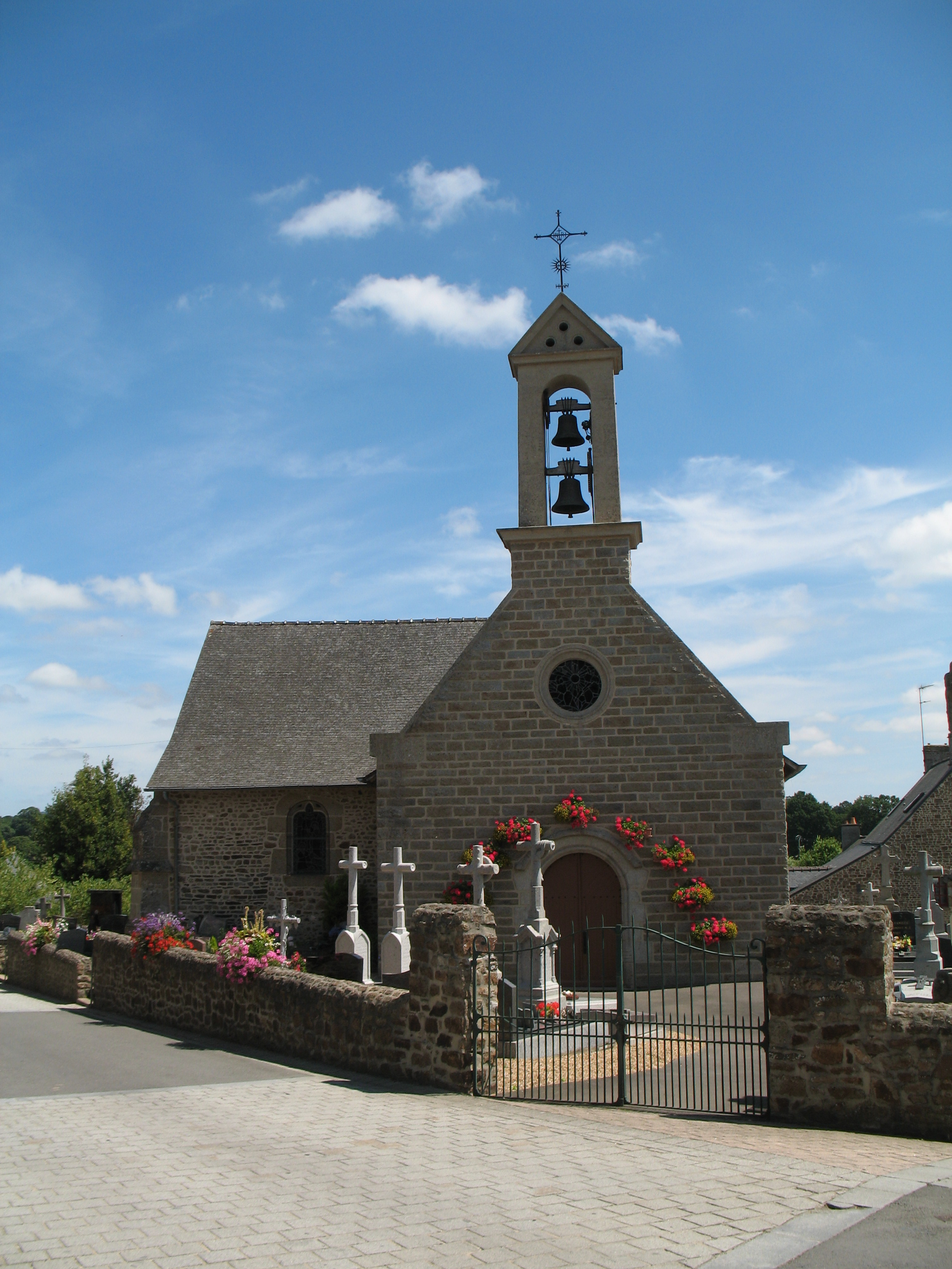 Church of La Selle-en-Luitré.